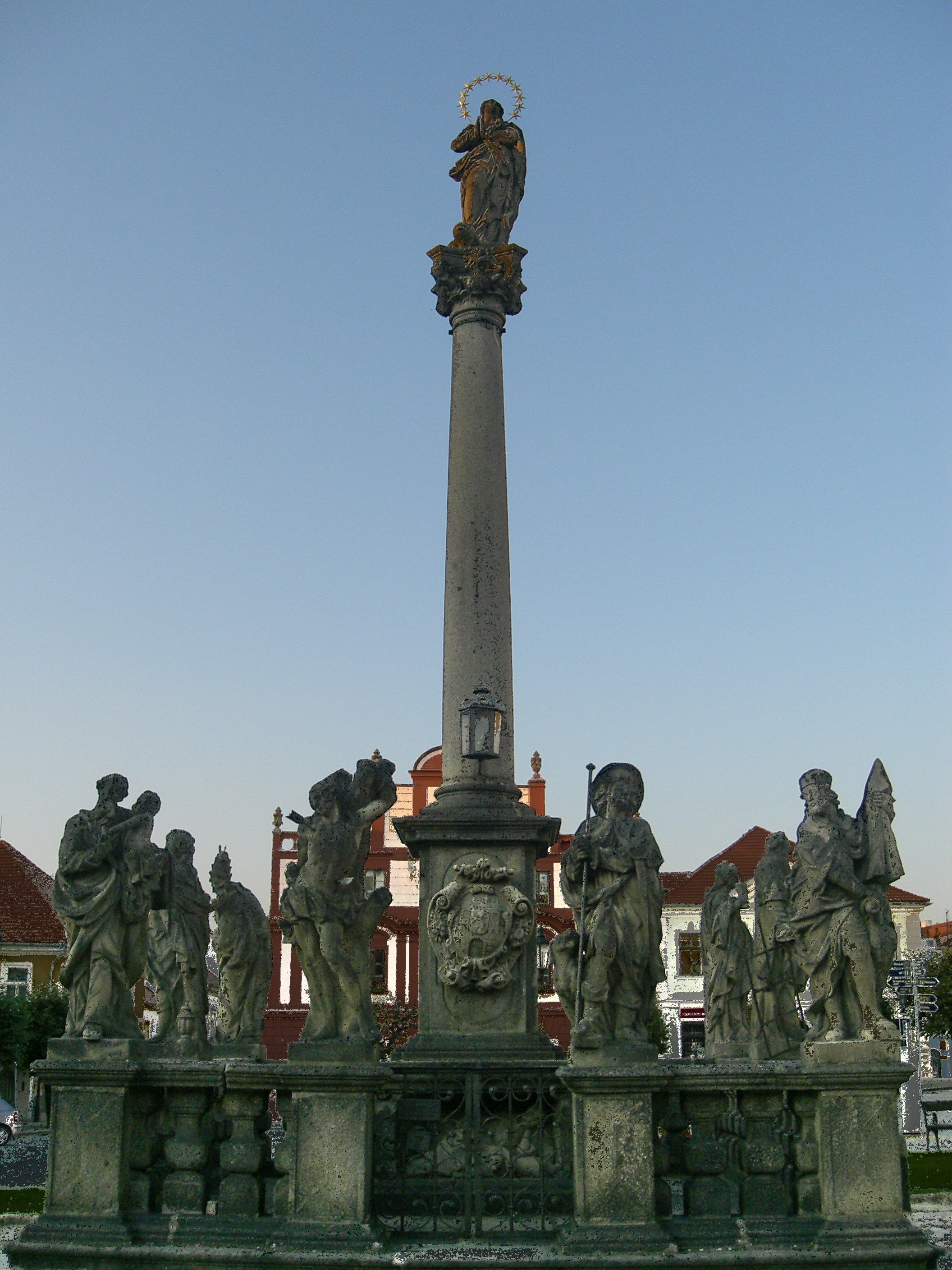 Marian columns on Alšovo square in Písek, Czech republic 49°18′26.91″N 14°8′56.57″E / 49.307475°N 14.1490472°E